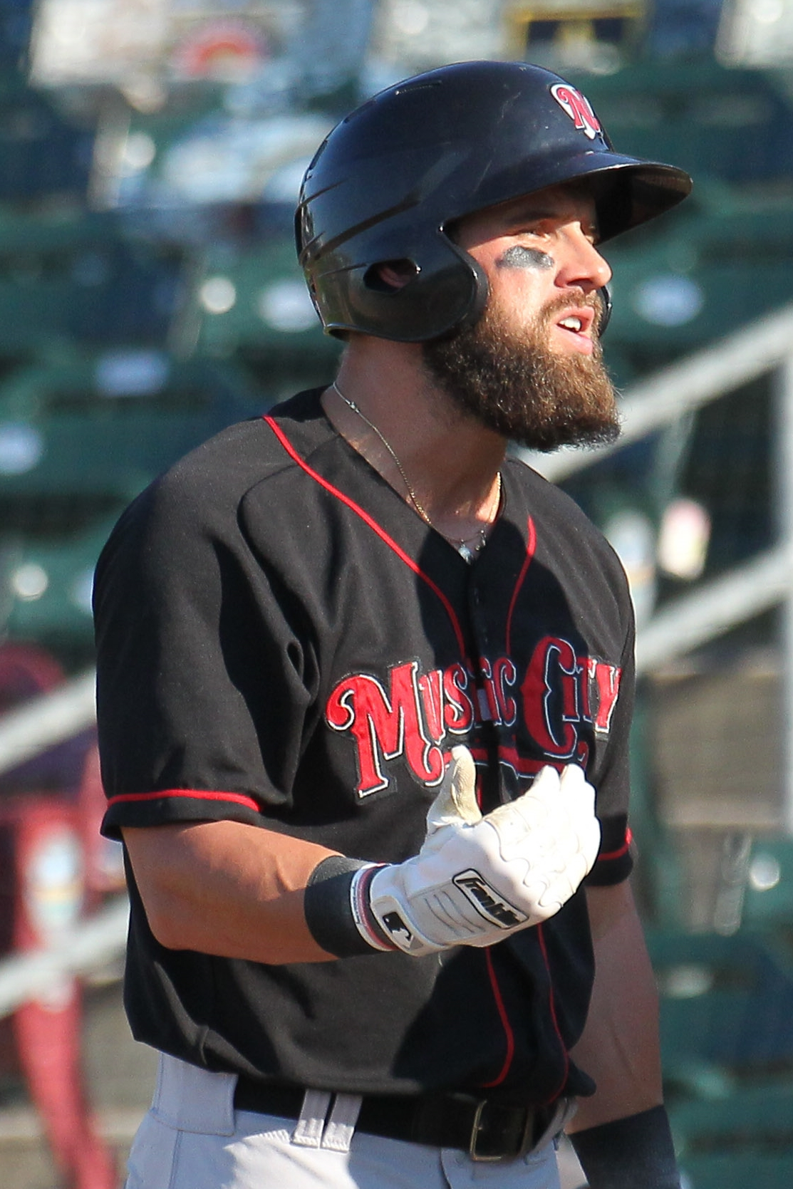 Nick Martini of the Nashville Sounds Minda Haas Kuhlmann | 2018 USAGE INSTRUCTIONS: You are welcome to share or publish to your own site or social media account, but you MUST credit me, Minda Haas Kuhlmann. Twitter: @minda33. Instagram: minda.haas